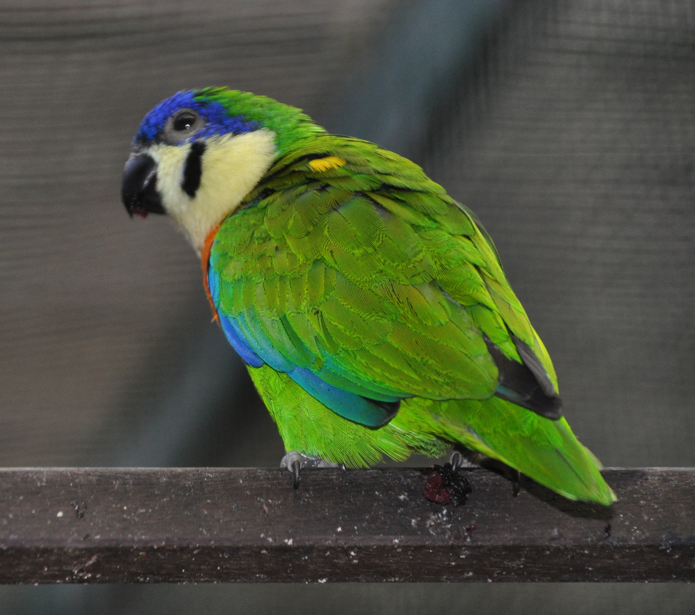 A male Orange-breasted Fig-parrot in the Walsrode Bird Park, Germany.